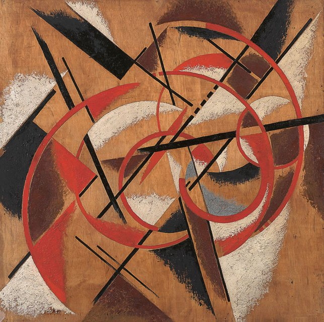 Spatial Force Construction, 1920-21. Oil and marble dust on plywood painting by Liubov Popova, 1123 x 1125 mm. State Museum of Contemporary Art of Thessaloniki